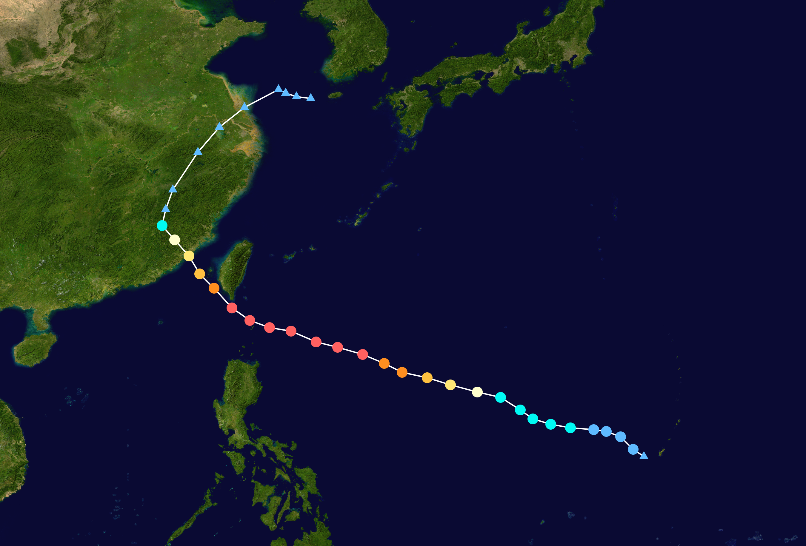 Track map of Typhoon Meranti of the 2016 Pacific typhoon season. The points show the location of the storm at 6-hour intervals. The colour represents the storm's maximum sustained wind speeds as classified in the Saffir–Simpson scale (see below), and the shape of the data points represent the nature of the storm, according to the legend below. Saffir–Simpson scale Tropical depression≤38 mph≤62 km/h Category 3111–129 mph178–208 km/h Tropical storm39–73 mph63–118 km/h Category 4130–156 mph209–251 km/h Category 174–95 mph119–153 km/h Category 5≥157 mph≥252 km/h Category 296–110 mph154–177 km/h Unknown Storm type Tropical cyclone Subtropical cyclone Extratropical cyclone / Remnant low / Tropical disturbance / Monsoon depression